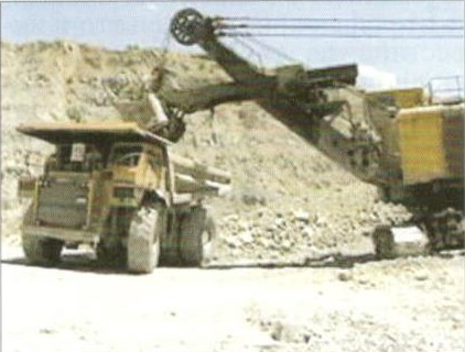 Mining in Buchim, Macedonia